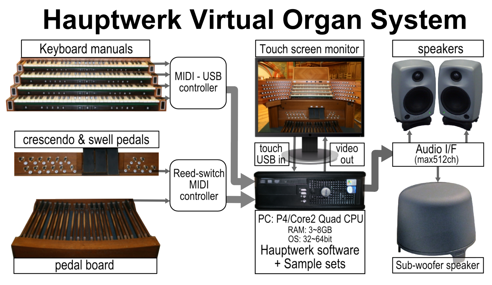 A flat-screen computer display File:Dell Optiplex 745 flat.JPG A Dell Optiplex 745 CPU laid flat. File:Genelec 6010A & 5040A.jpg Genelec booth at IBC 2009. Genelec 6010A Genelec 5040A